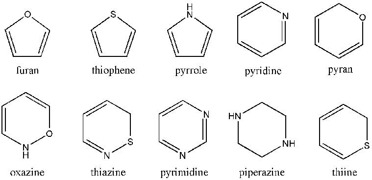 Sample of heterocycles